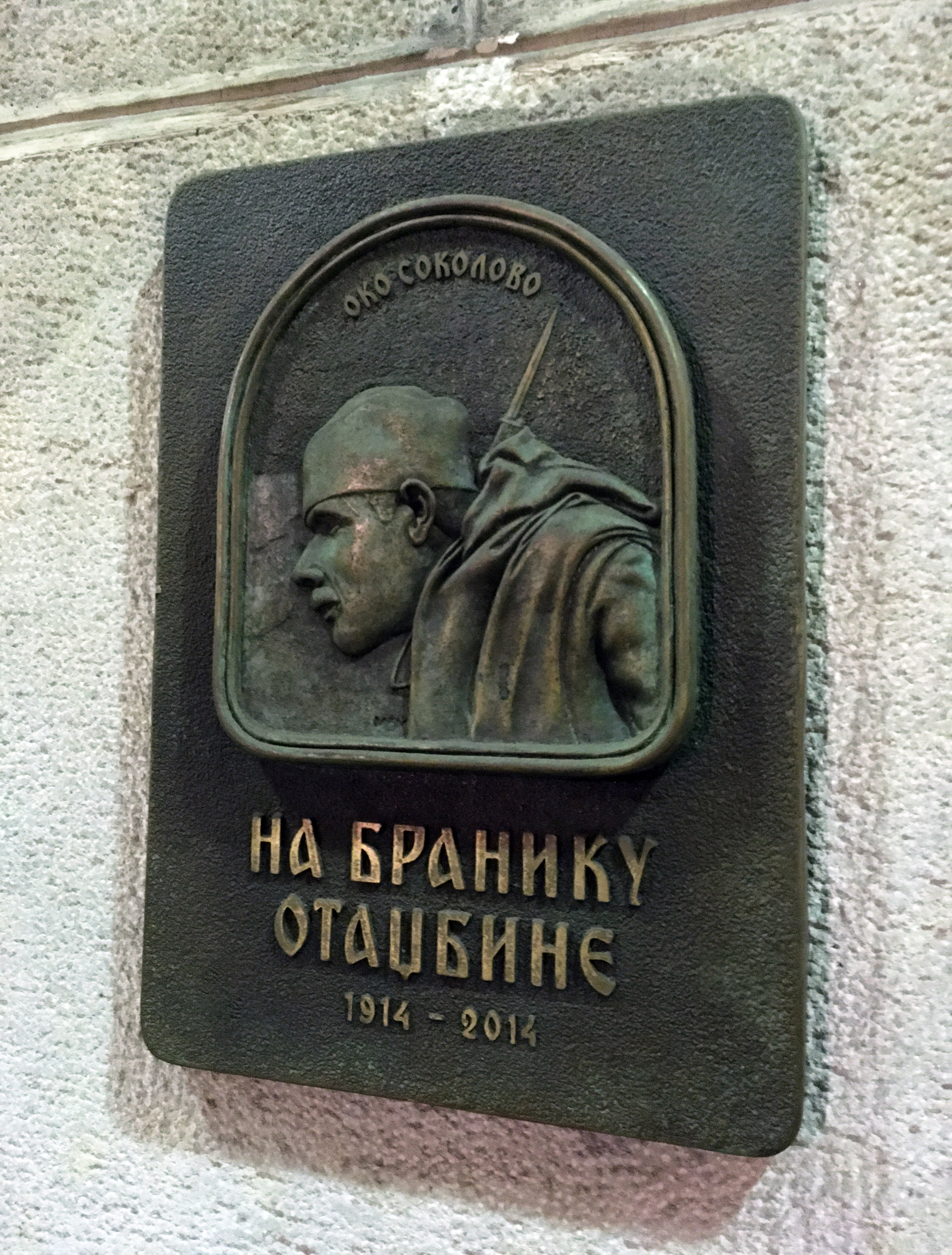 Oko sokolovo, Dom vojske, 1914-2014